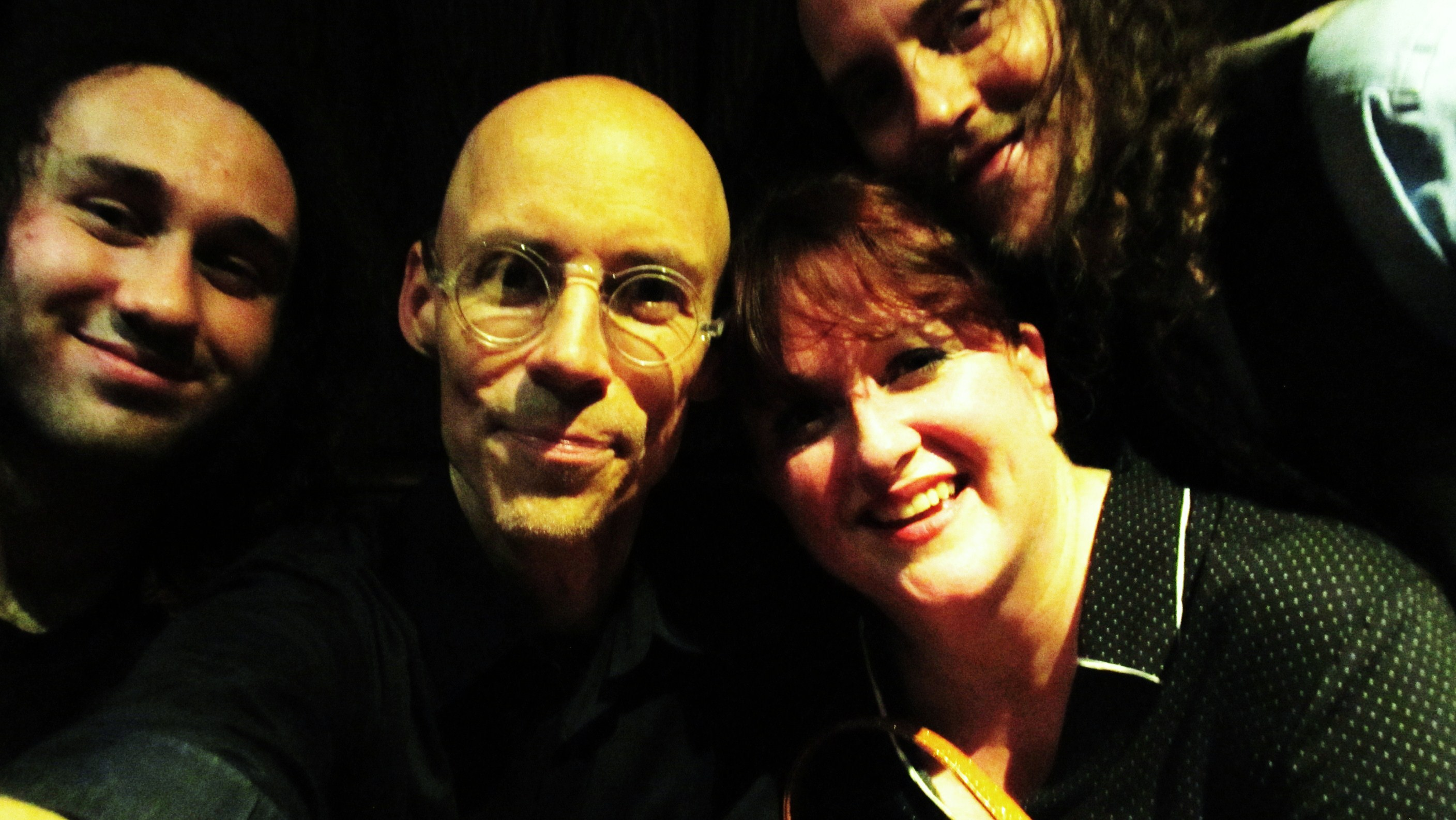 It's OK! (band) l-r: Joey Mancaruso, Robert Hecker, Ellen Rooney, Dennis McGarry, 2014